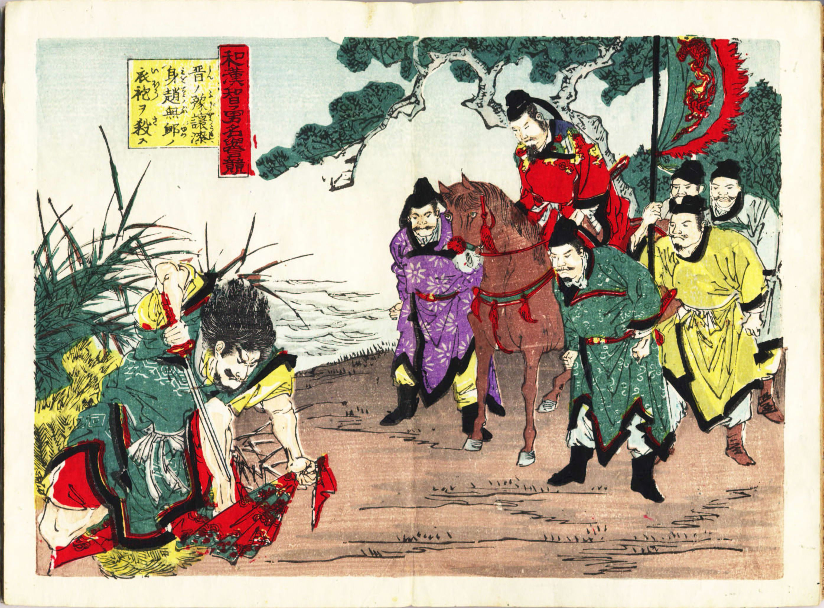 Loyal Assassin Yu Rang, to avenge his lord Zhi Bo, cuts the dress of Viscount Zhao Xiangzi three times